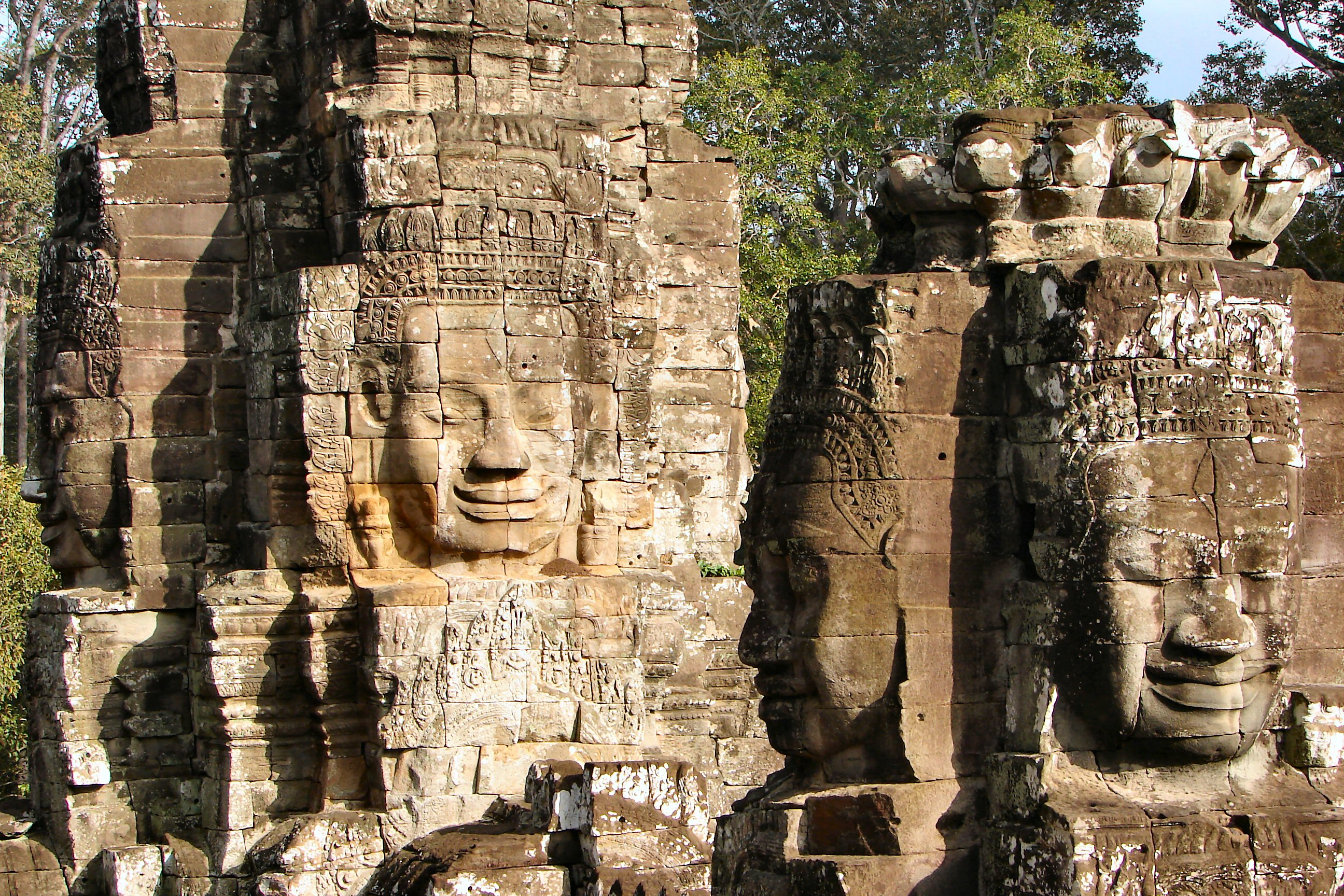 Some of the 200 or so gigantic faces in the temple of Bayon in the Angkor complex